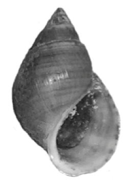 Black-and-white photo of an apertural view of a shell of Elimia potosiensis from Arkansas.